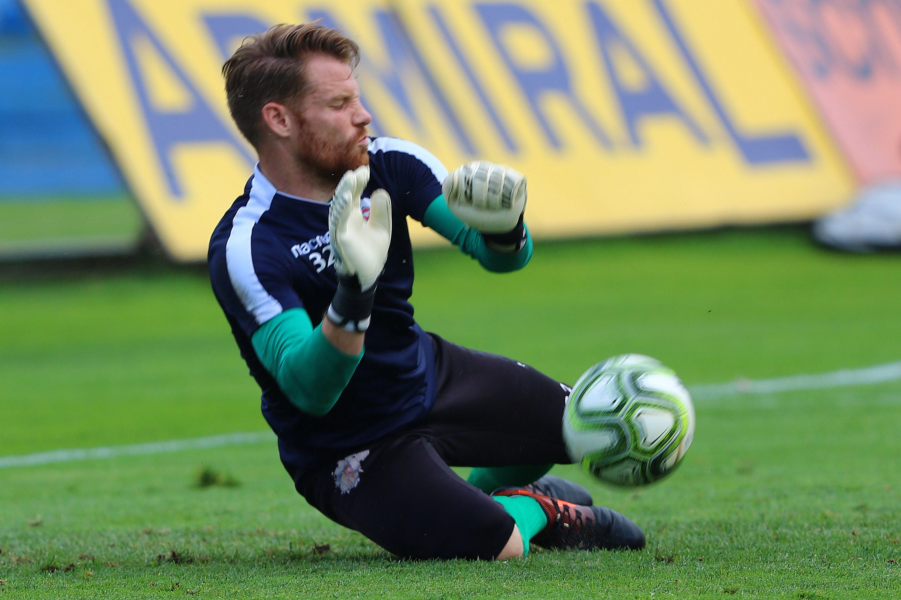 Football qualification match for the Austrian Bundesliga - SC Wiener Neustadt (white shirts) vs. SK St. Pölten (red shirts) 0-2. – The photo shows the goalkeeper of SKN St. Pölten Thomas Vollnhofer.